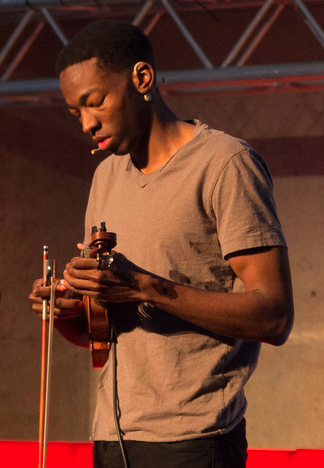 Eric Stanley is an American violinist and composer.